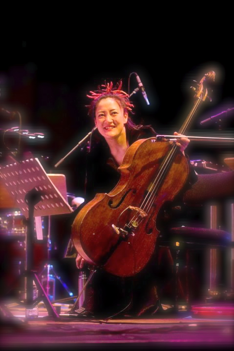 Su-a Lee, on stage with cello.